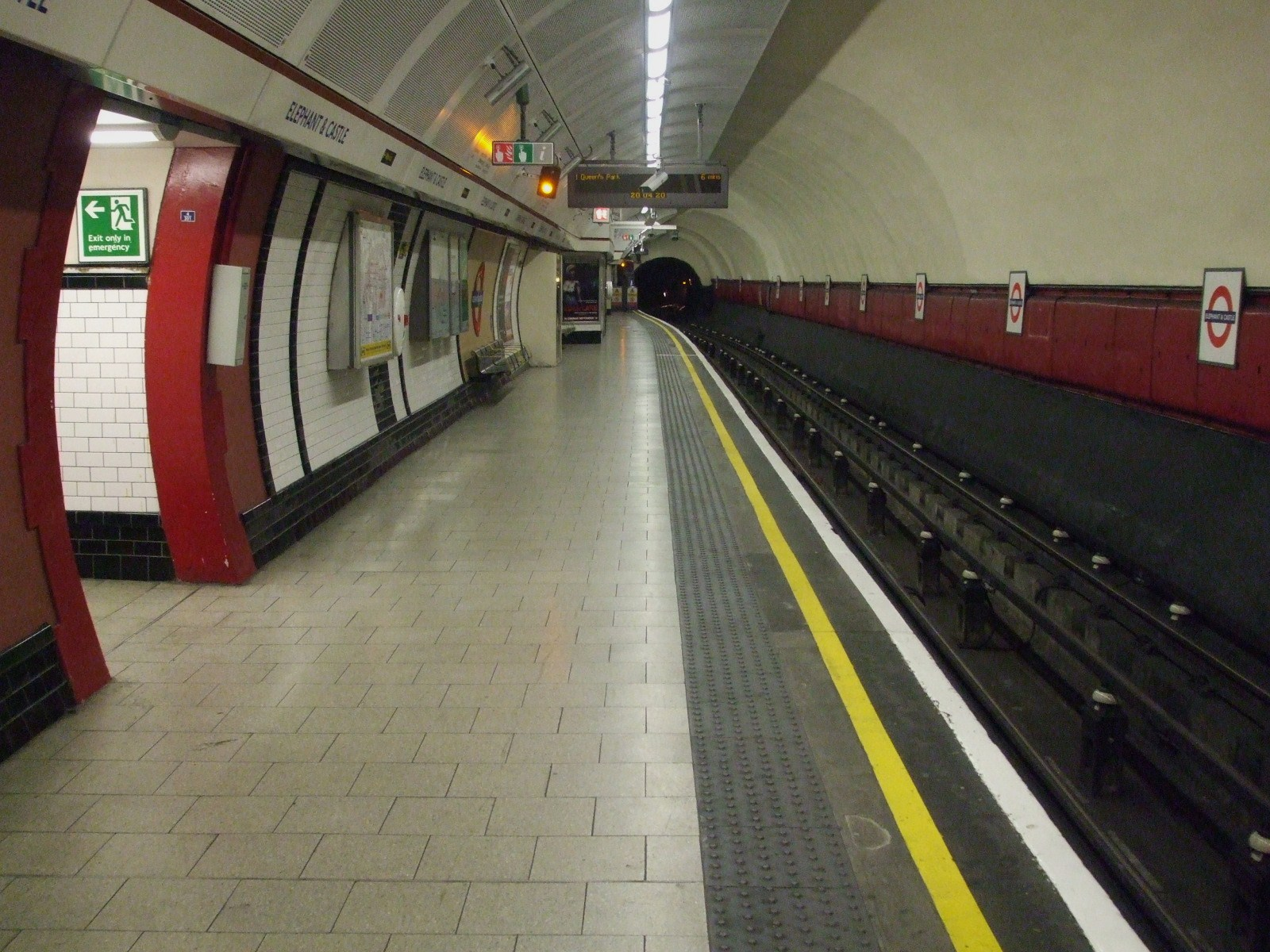 Elephant & Castle tube station eastern Bakerloo line platform looking north.